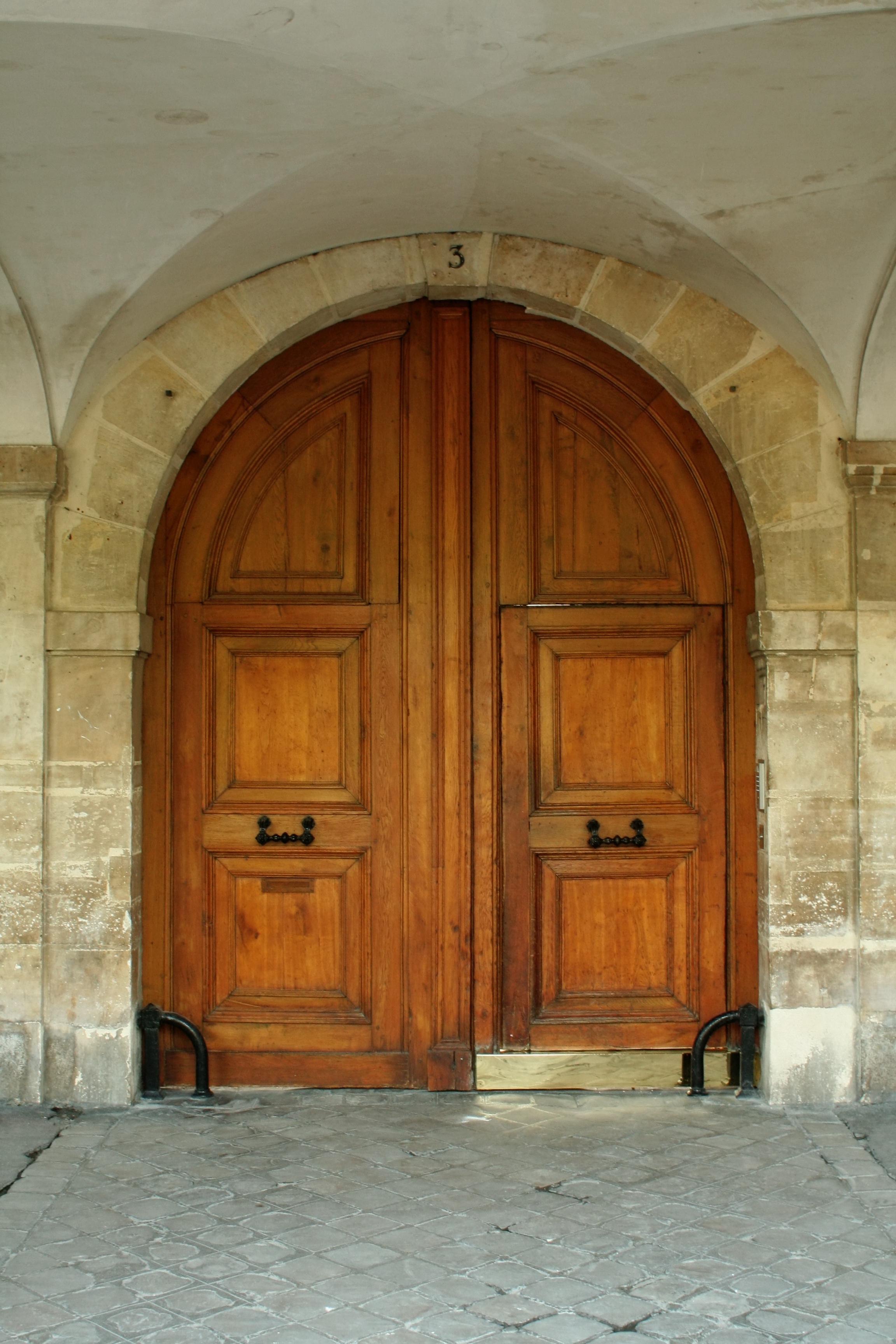 Door of 3 Place des Vosges, Paris.